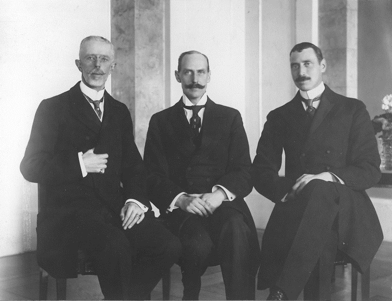 From the meeting of the three Scandinavian kings in Oslo in 1917. From left to right; Gustav V of Sweden, Haakon VII of Norway and Christian X of Denmark.